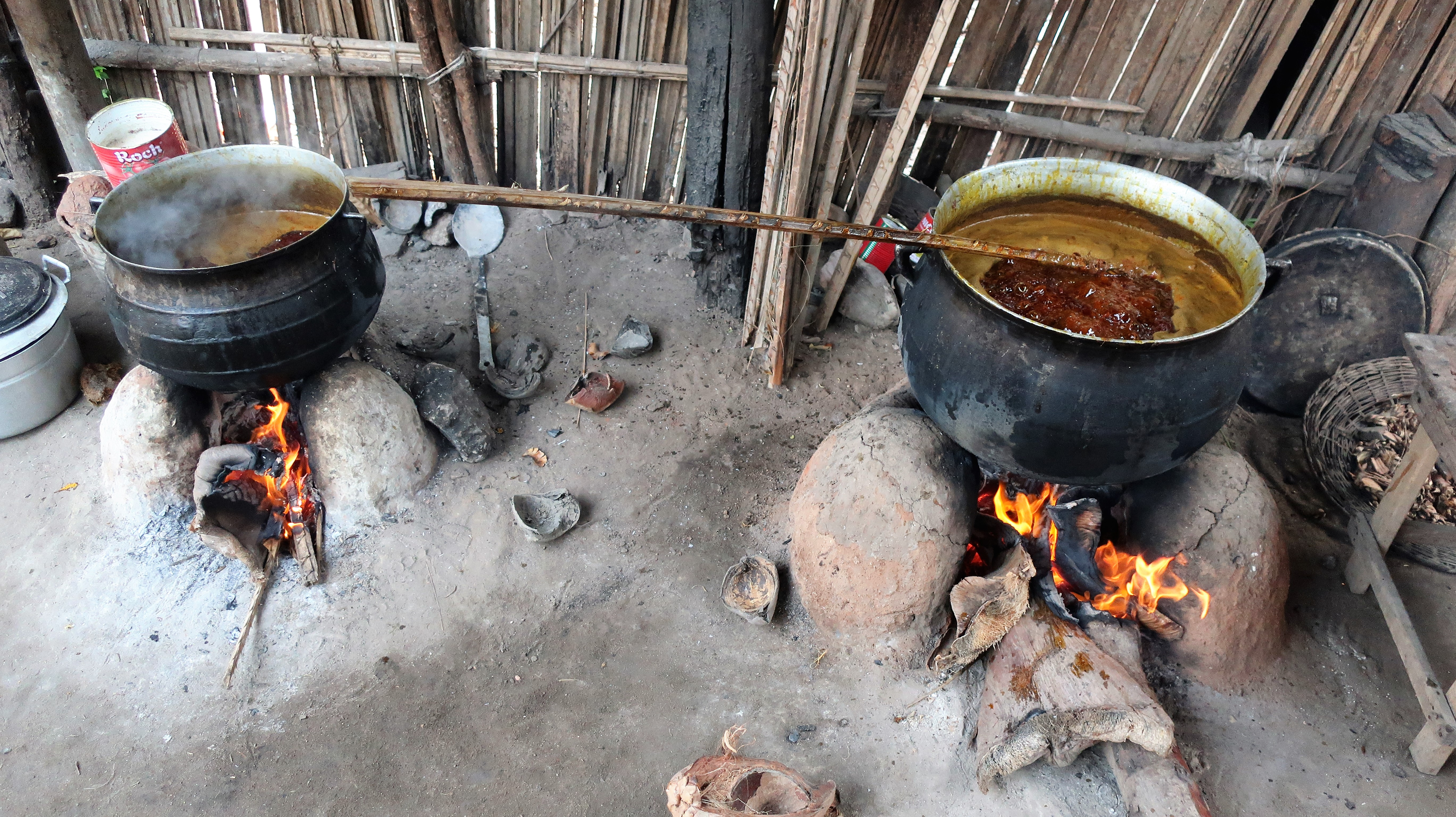 Two metal pots with palm oil in the making, both on fire palce